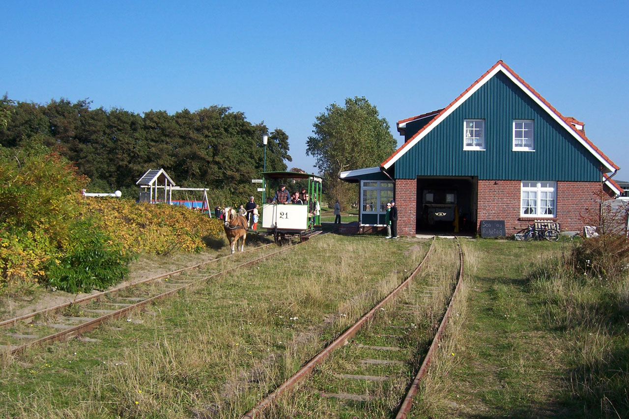 North Sea island Spiekeroog. Museum horsecar